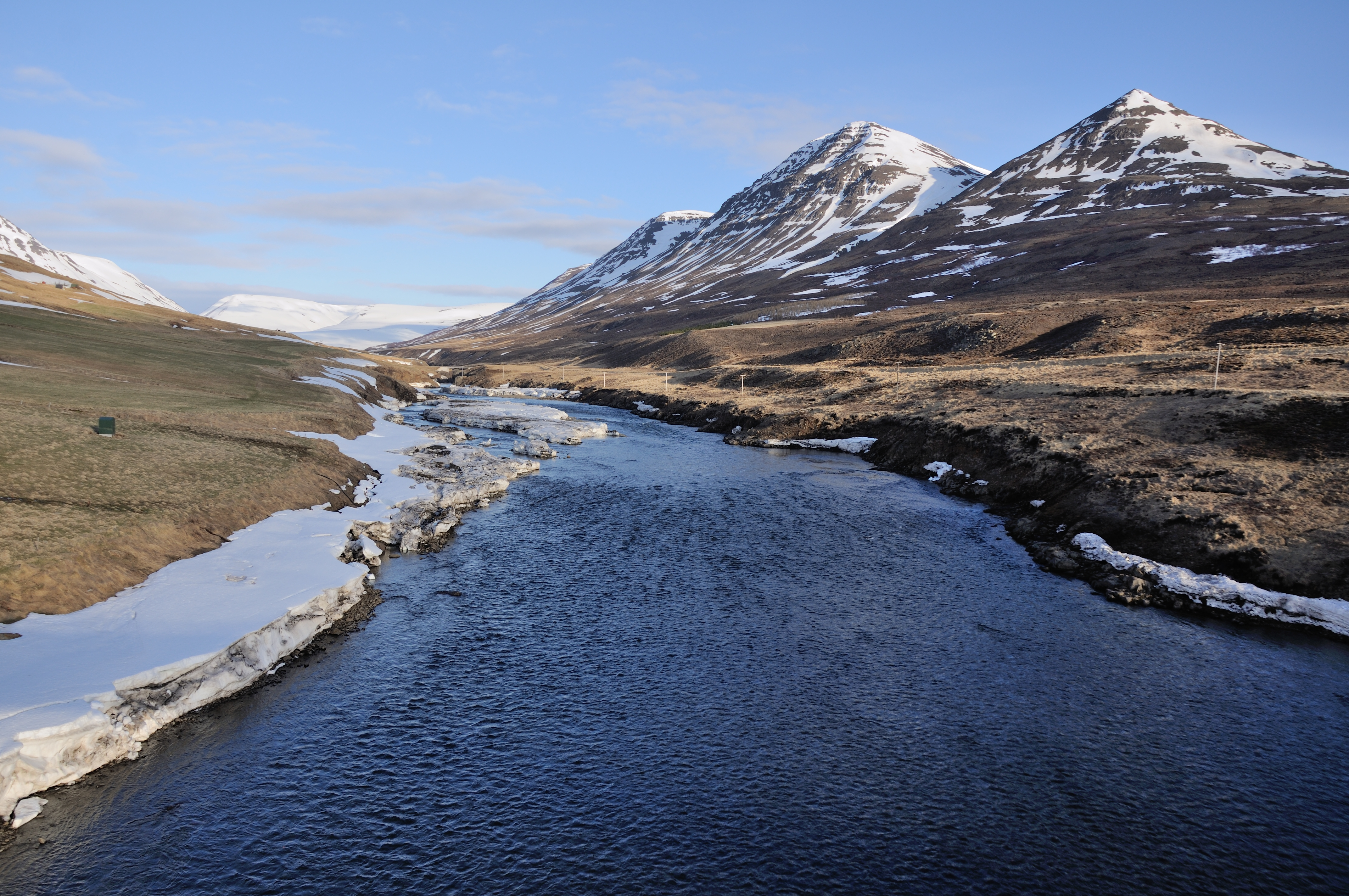 Iceland, impressions along road 835